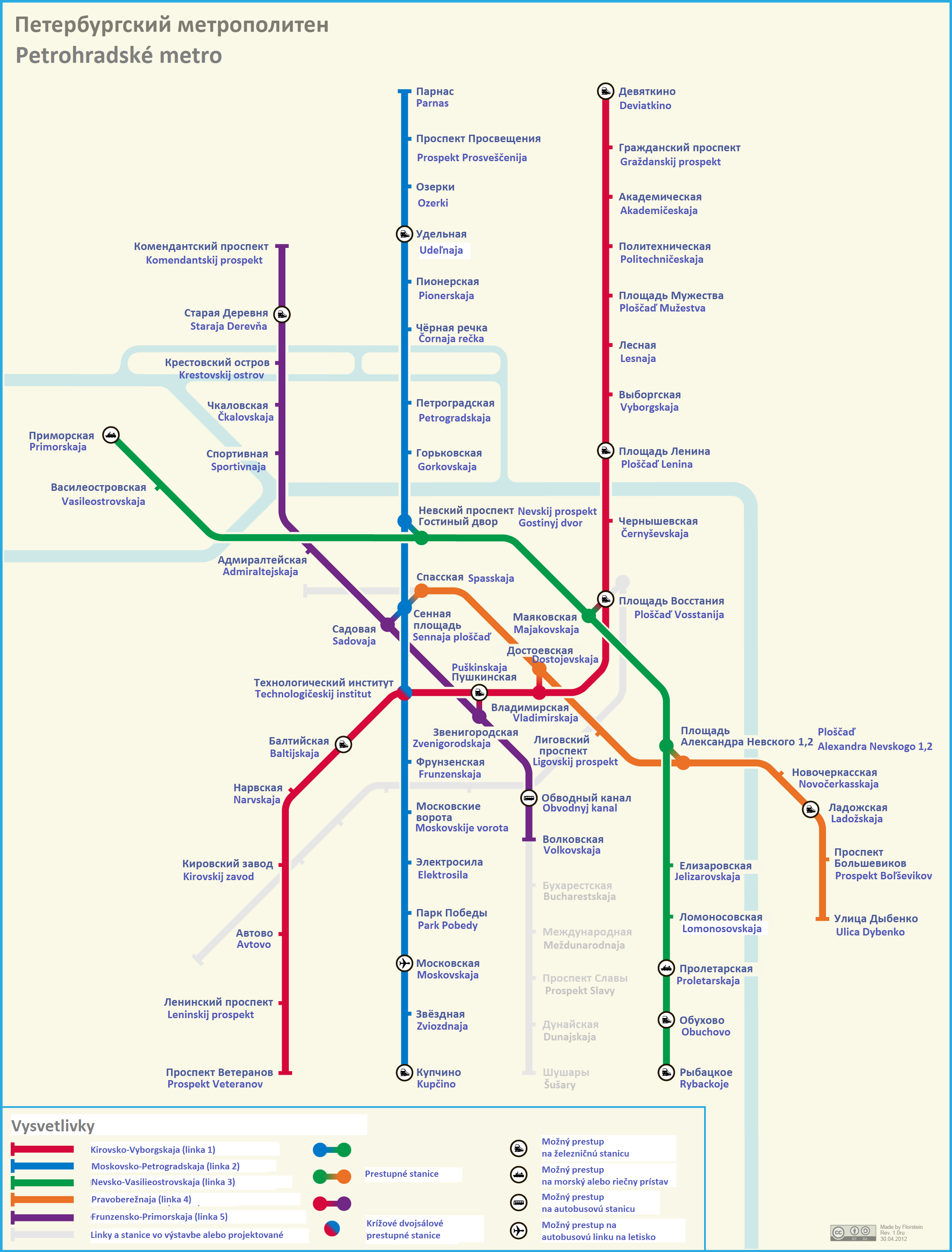 Saint Petersburg metro map. Russian & Slovakian versionSlovenčina: Schéma petrohradského metra. Ruská & slovenská verzia.